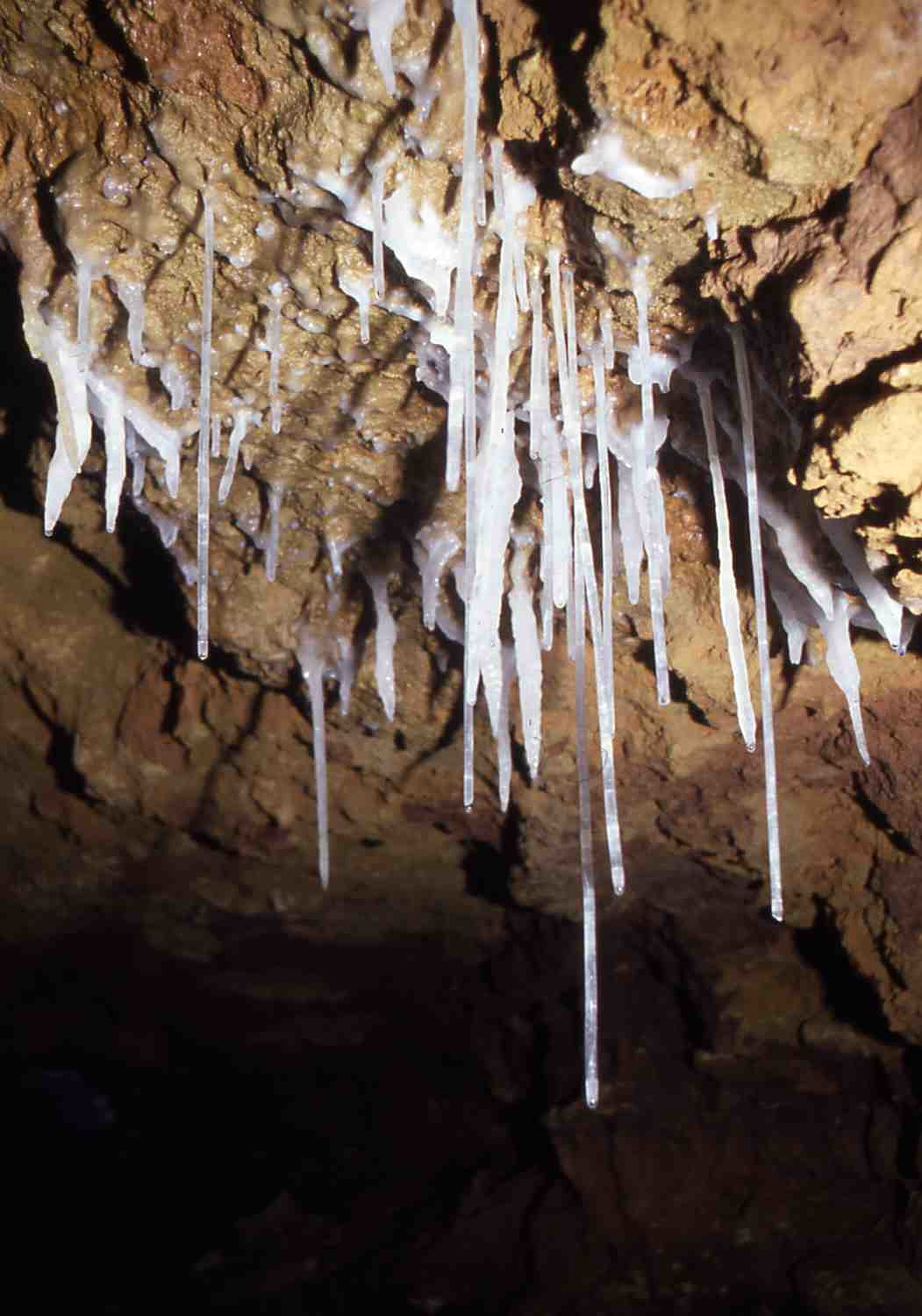 straws in a cave of Okinoerabu Island, Japan